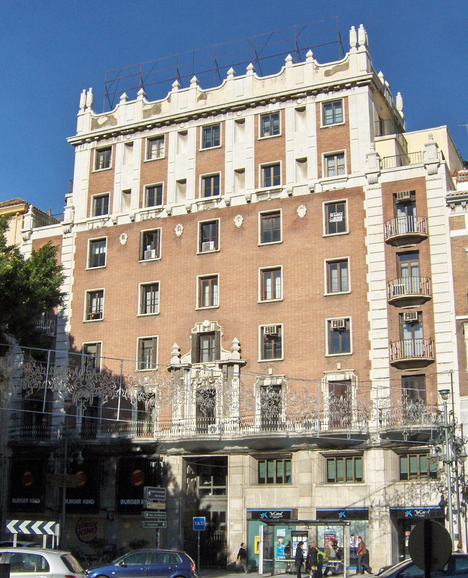 Edificio Taillefer, Málaga.